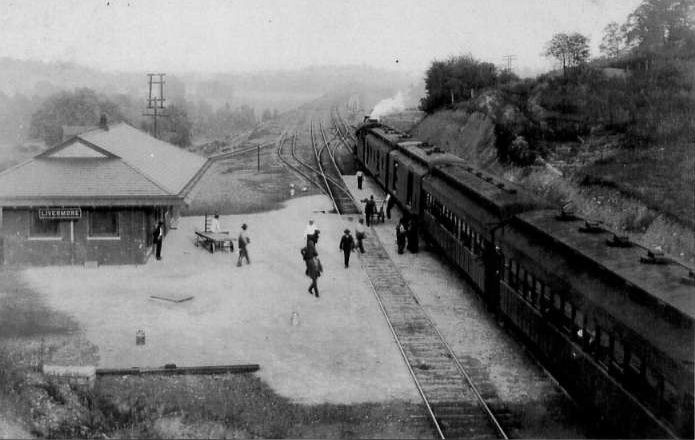 Pennsylvania Rail Road station, Livermore, Pennsylvania in 1908